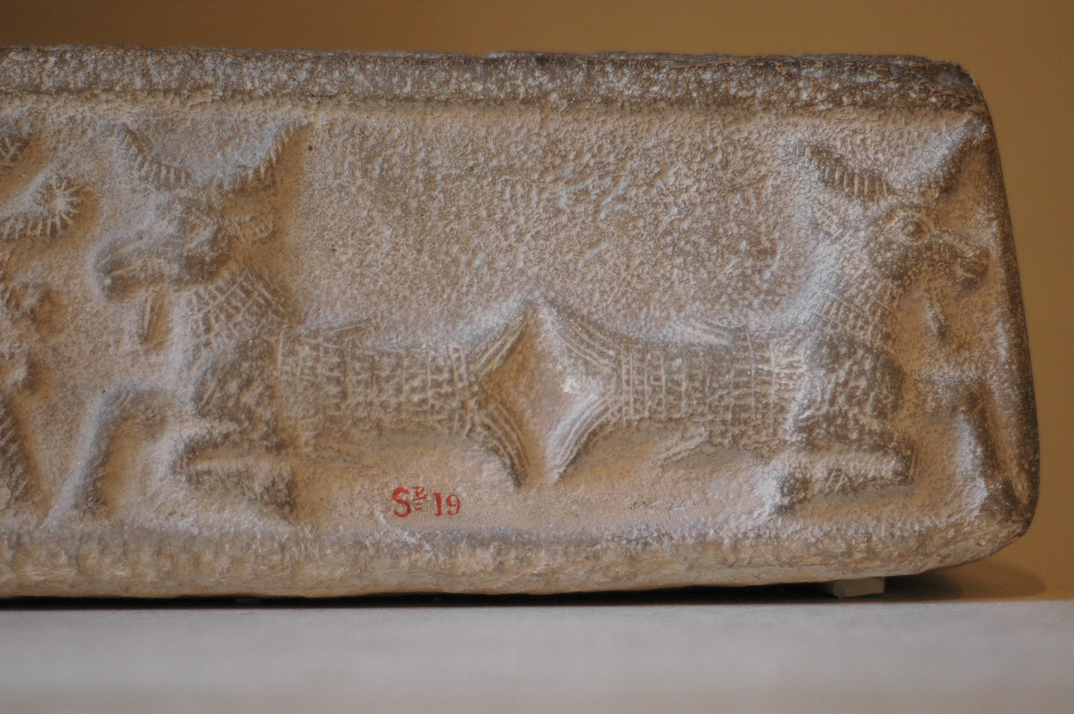 Goatfishes ornating a cultual tank, symbolizing the sweet water abyss, domain of the god Ea. Found in Susa, limestone, Middle Elamite period (c. 1500 BC – 1100 BC).